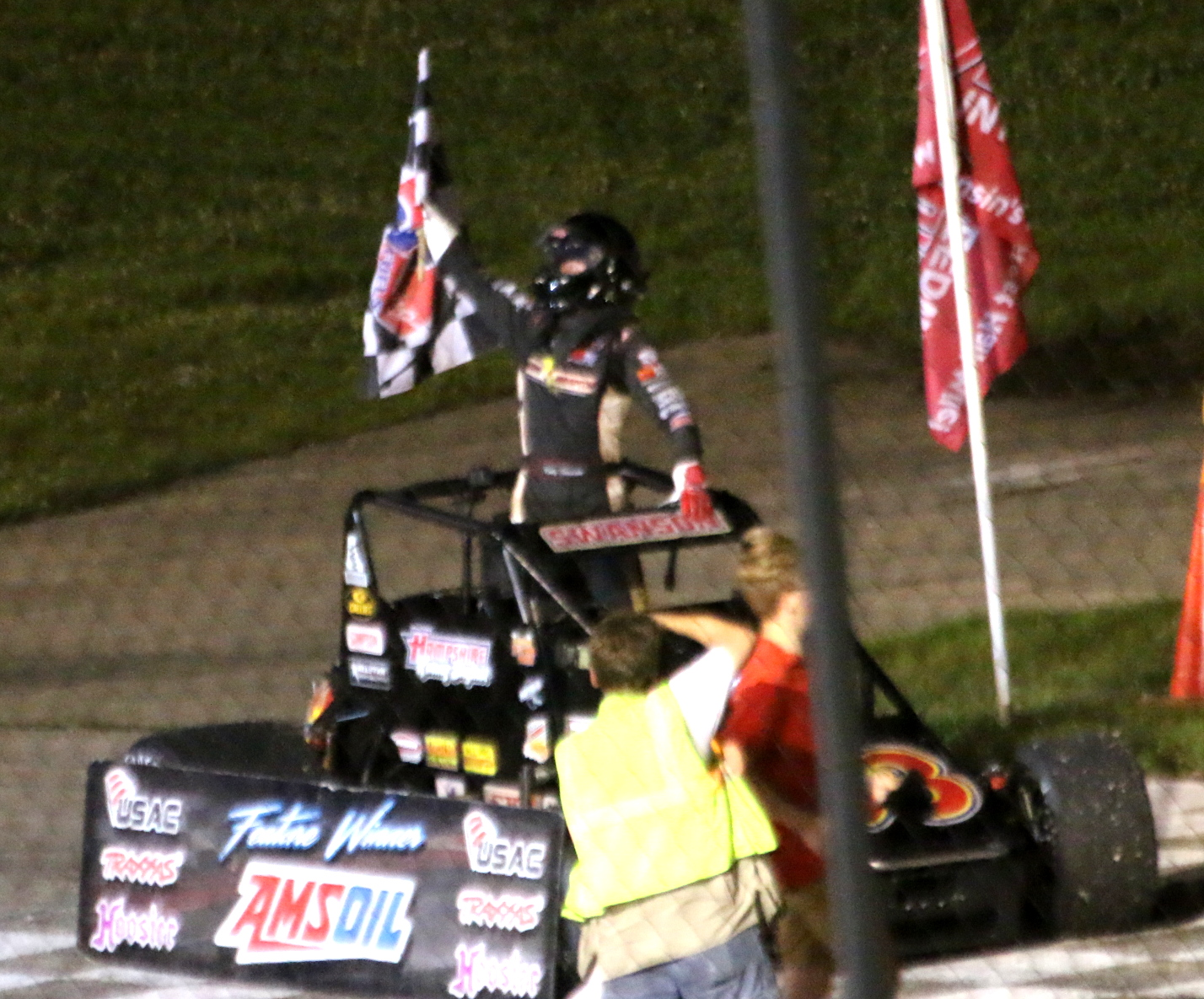 USAC Silver Crown driver Kody Swanson after winning his 23rd series race. The win tied him for the most in the series' history.